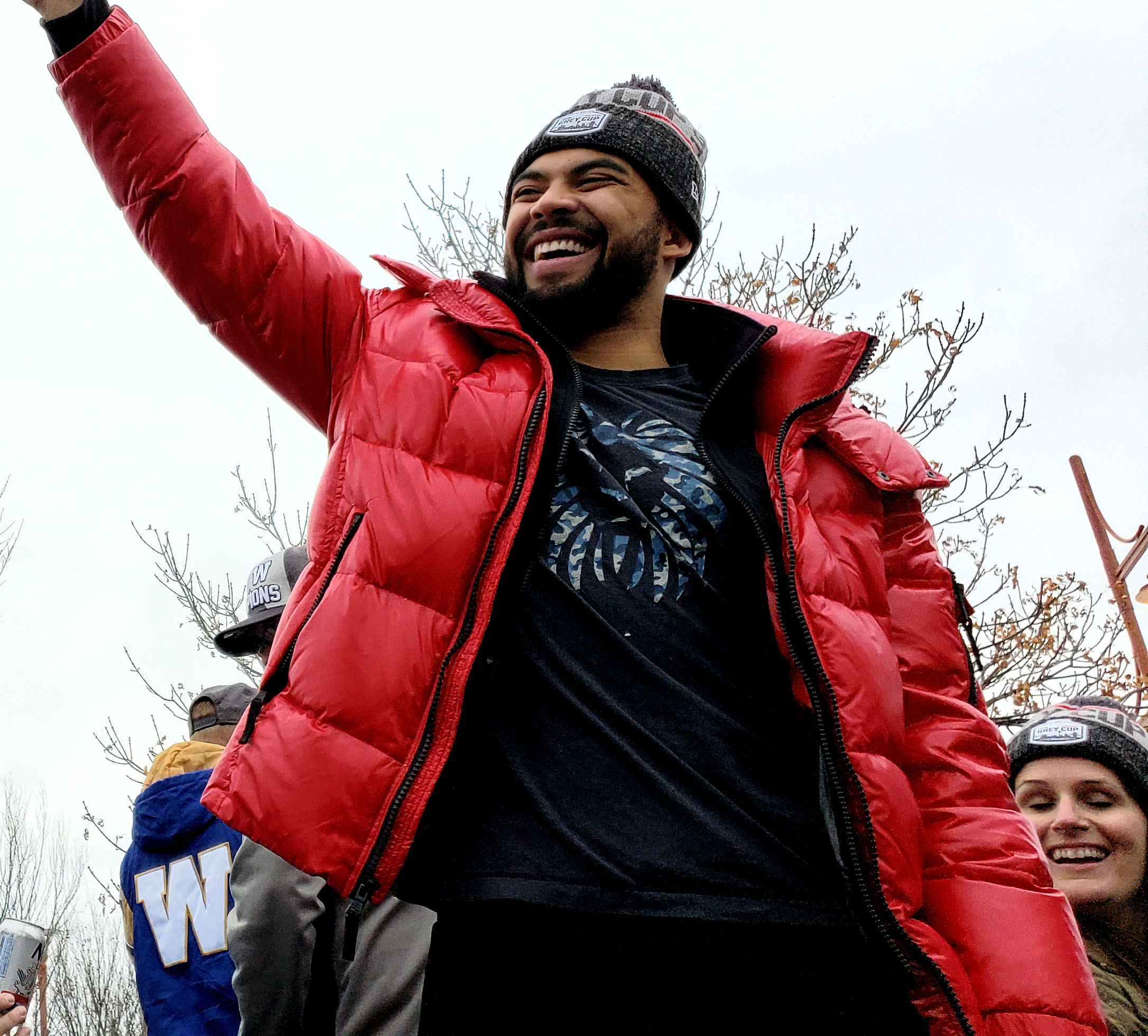 A crop of Nic Demski from the 2019 Grey Cup parade